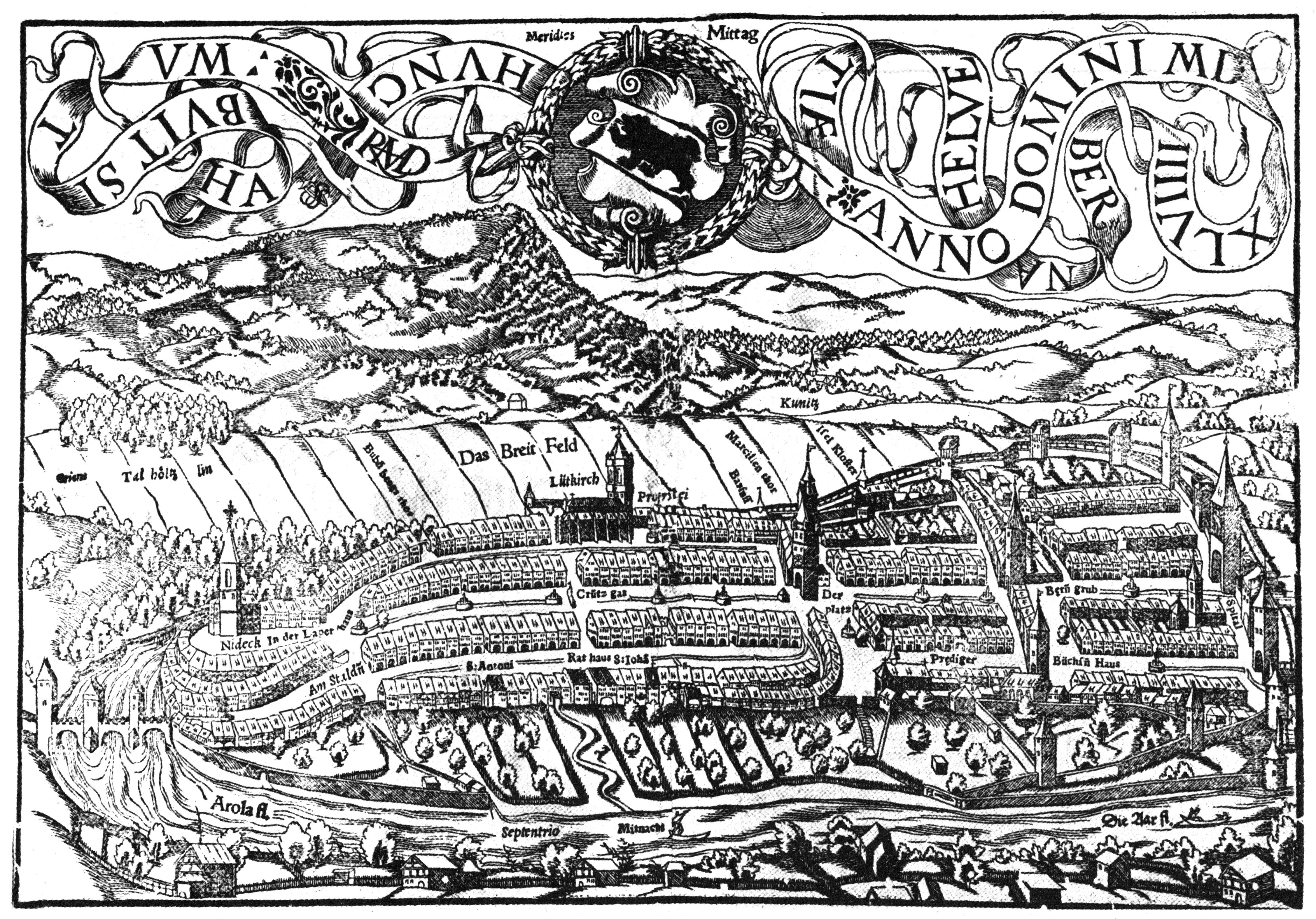 Map of Berne, wooden cut by Hans Rudolf Manuel, 1549. Earliest topographically accurate depiction of Berne.